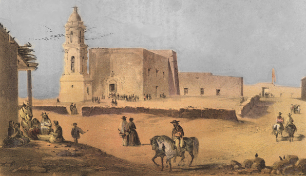 A painting of the Guadalupe Mission in the 1850s by A. de. Vauducourt. The mission is now located in downtown Ciudad Juarez, Mexico.